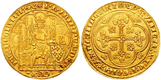 France, Royal. Philip VI de France, 1328-1350. AV Ecu d'Or à la Chaise (4.54 gm). Third emission, 5 January 1348. King seated facing on Gothic throne Cross flurey with trefoils in angles, all within quadrilobe. Duplessy 249b; Ciani 284. EF.